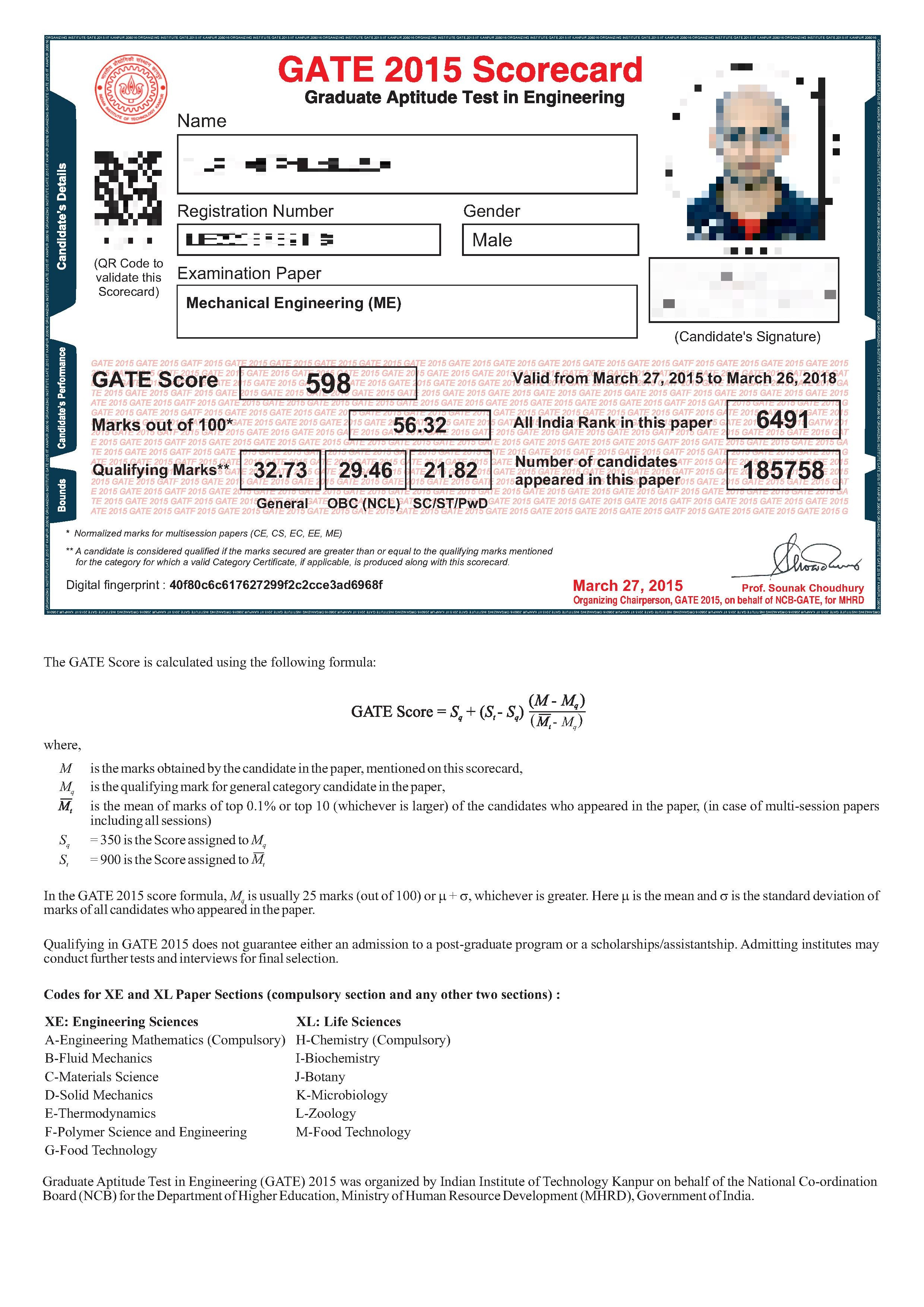 A scorecard in the Mechanical Engineering test of the Graduate Aptitude Test in Engineering 2015.